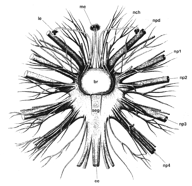 Central Nervous System of Phrynus sp.. br=brain; supraoesophageal ganglion; ce=cauda equina, opistosomal nerve; le=lateral eyes; me=median eyes; nch=cheliceral nerve; np1-np4=nerves of the first to the fourth pairs of legs; npd=pedipalp nerve; seg=suboesophageal ganglion.